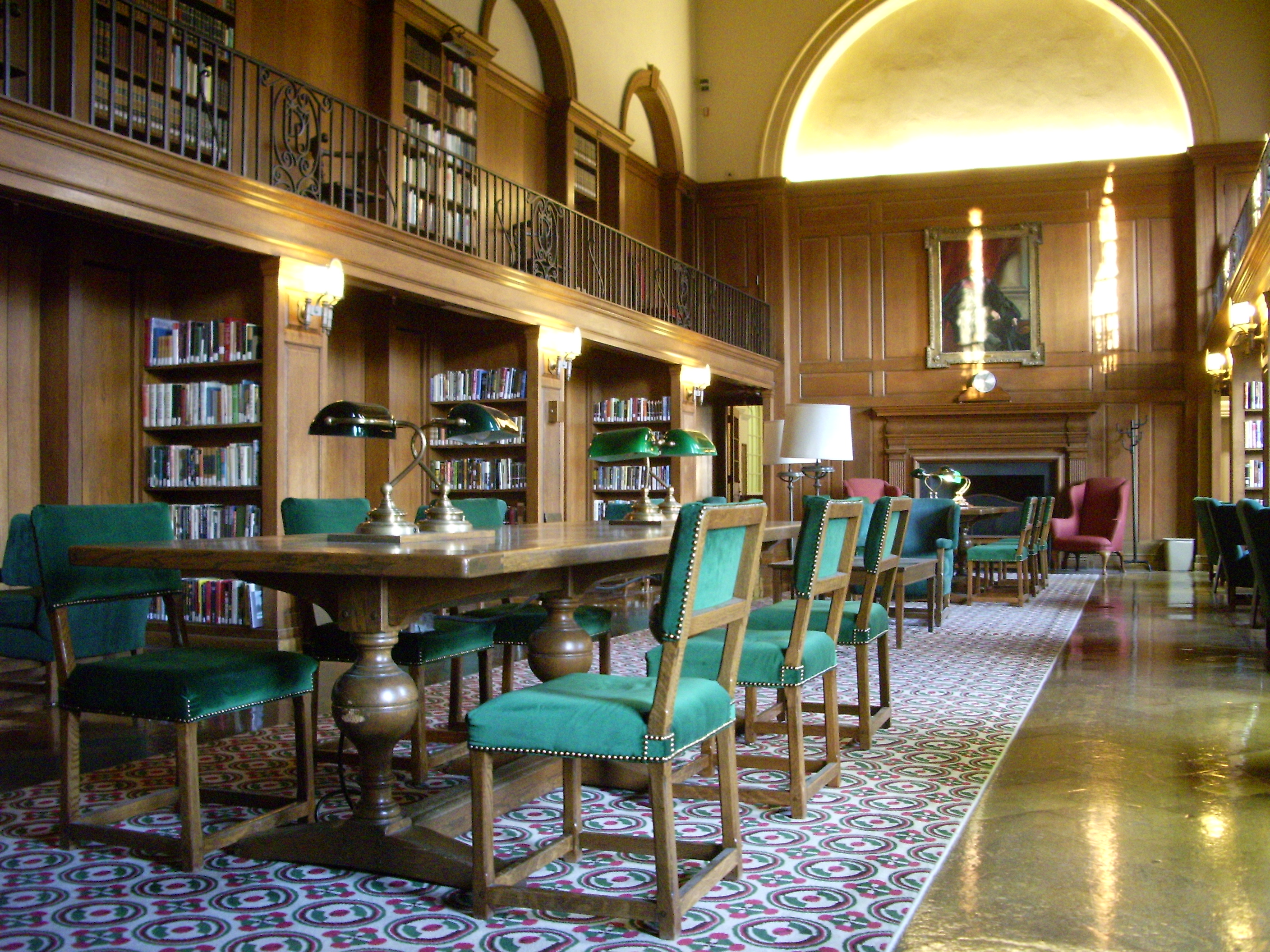 Photograph of the Tower Room in Baker Memorial Library at the campus of Dartmouth College in Hanover, New Hampshire.